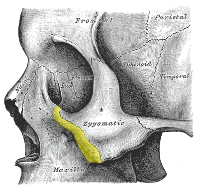 Zygomatic process of maxilla (shown in yellow)